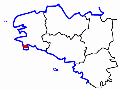 Description: Map for localisazion of cantons of Bretagne region in France Source: made by Hervé Tigier in april 2005 from another large map (published in 1990)